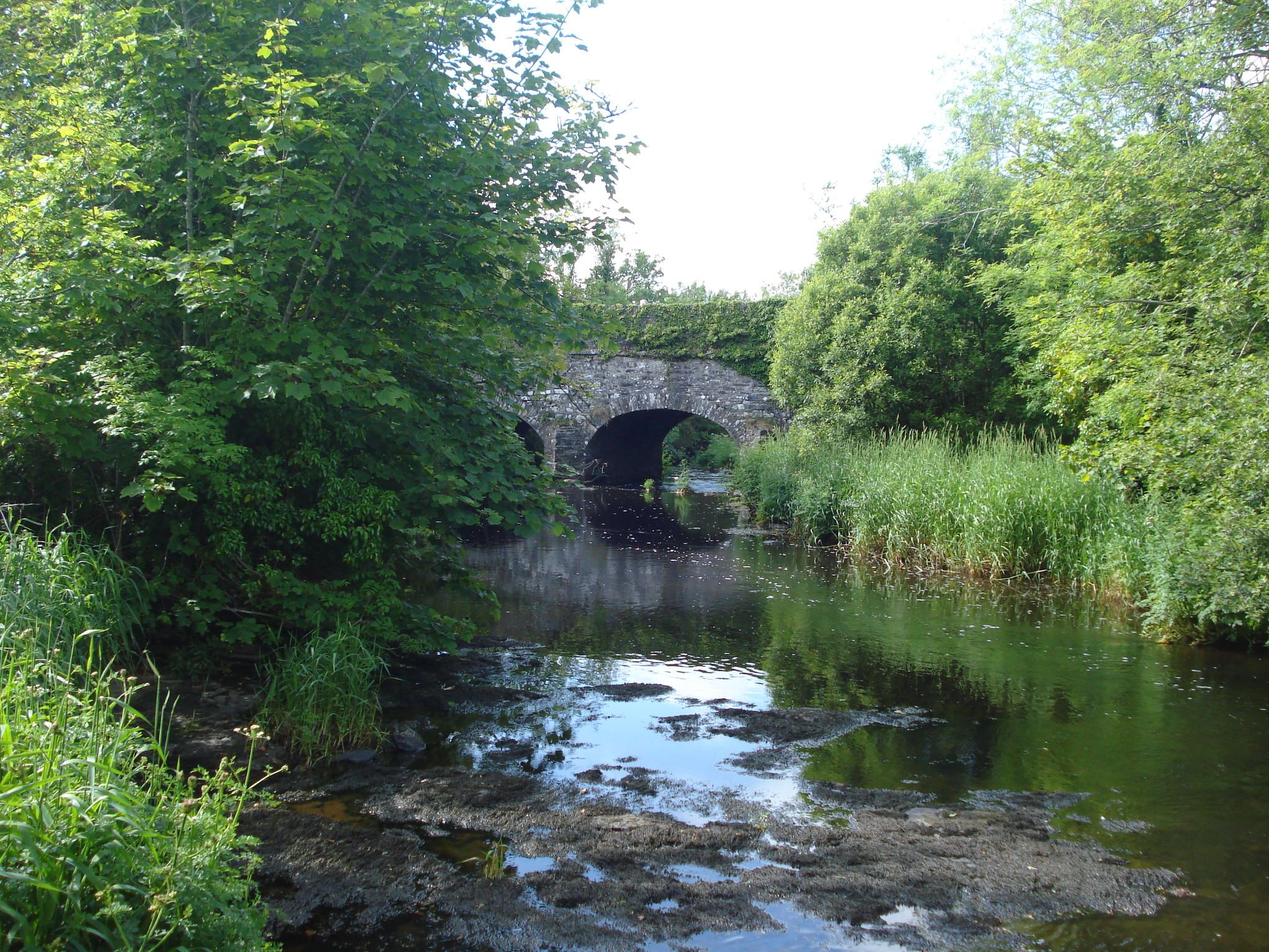 Inagh River in County Clare. Passing Inagh on her way to Ennistymon, Lahinch and Liscannor Bay. The road over the bridge is the R460 Inagh-Milltown Malbay.